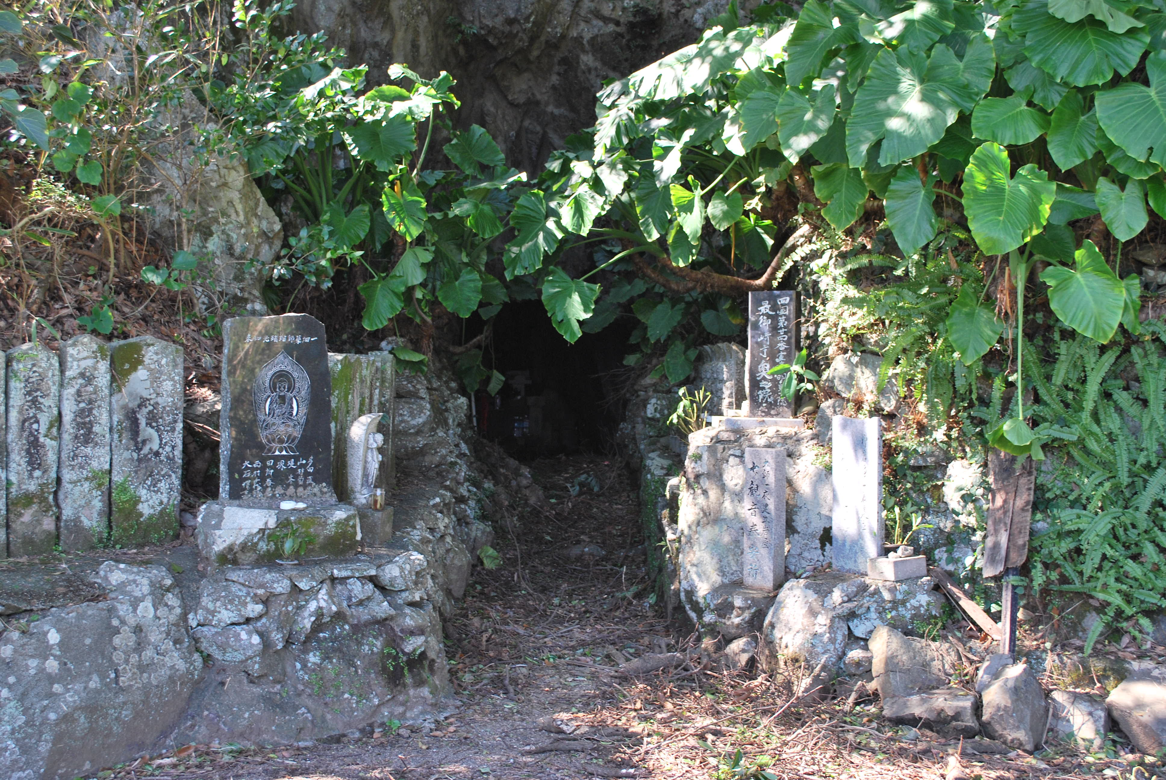 Entrance of Ichiyakonryū no Iwaya